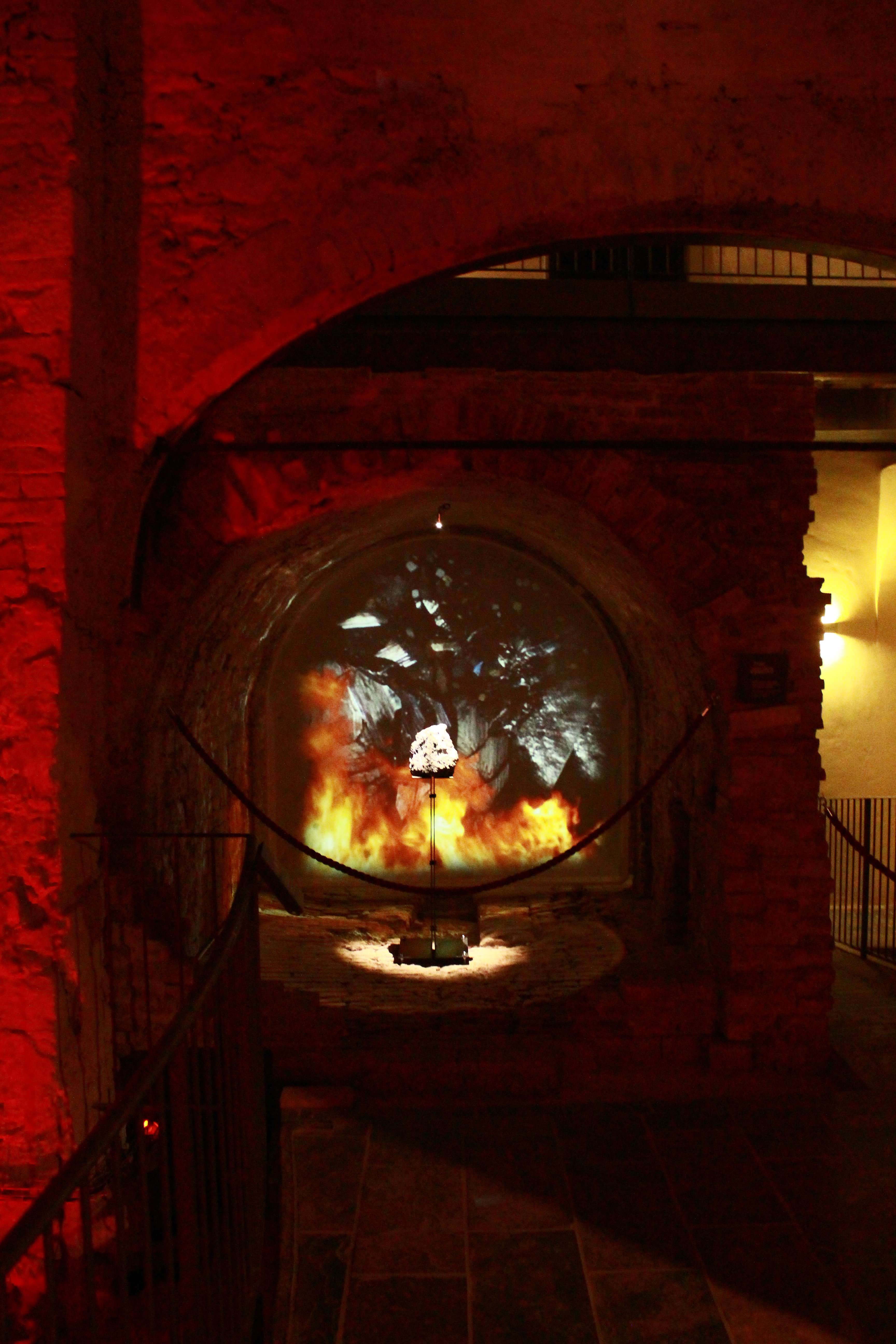 MAGMA Follonica